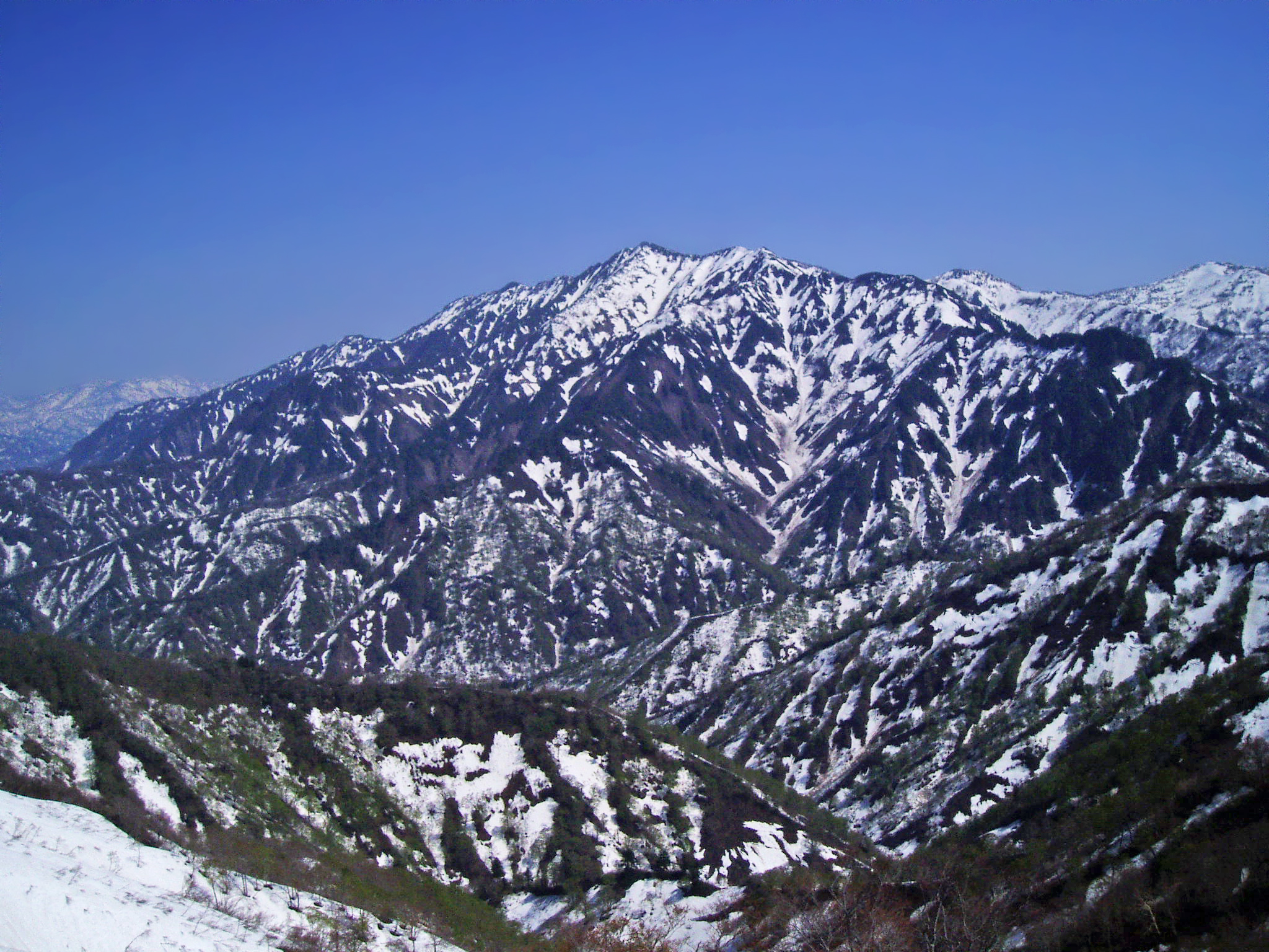 Mt. Arasawadake (elev. 1969m) from near Mt. Ogurayama (1378m)